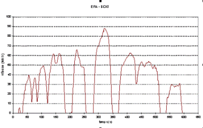 US vehicle certification test cycle SC03 Unit : km/h